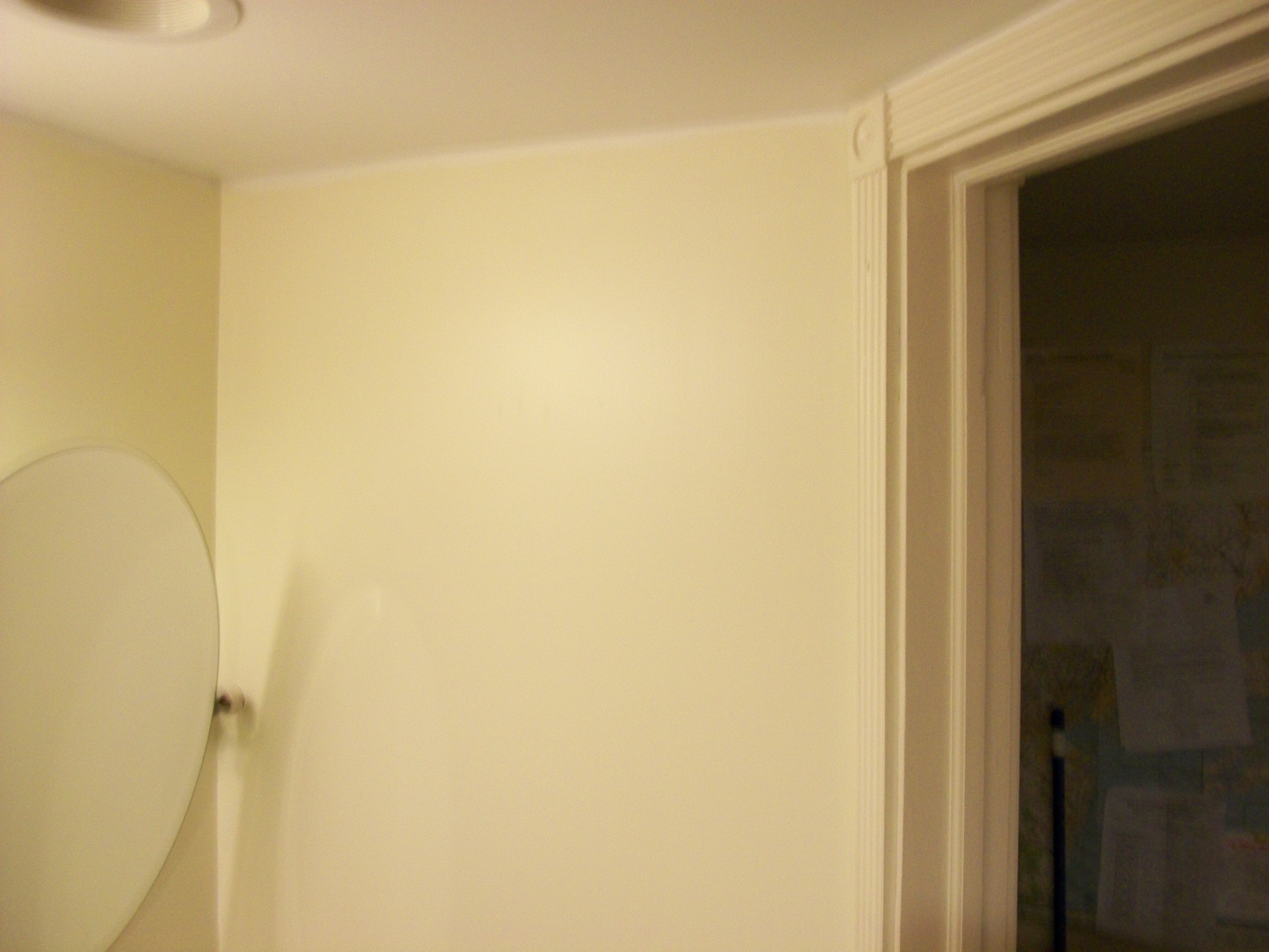 This wall was built with three 2x4s, plus additional supports. There are extra 2x4s near the door to provide extra strength. Before sheetrocking, remember to note carefully where the electric wires are. Put metal plates on studs to prevent somebody else accidentally nailing or drilling into a live wire. Last, molding is an excellent way to cover up imperfections where walls meet.